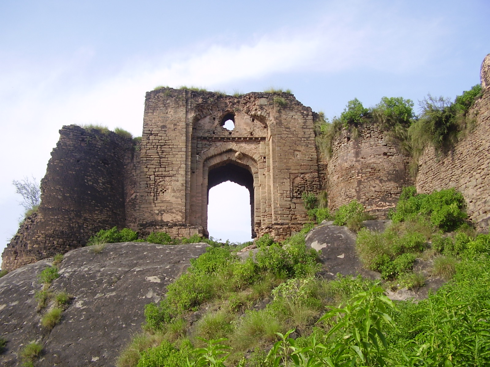 Gate of Pharwala toward Swaan stream